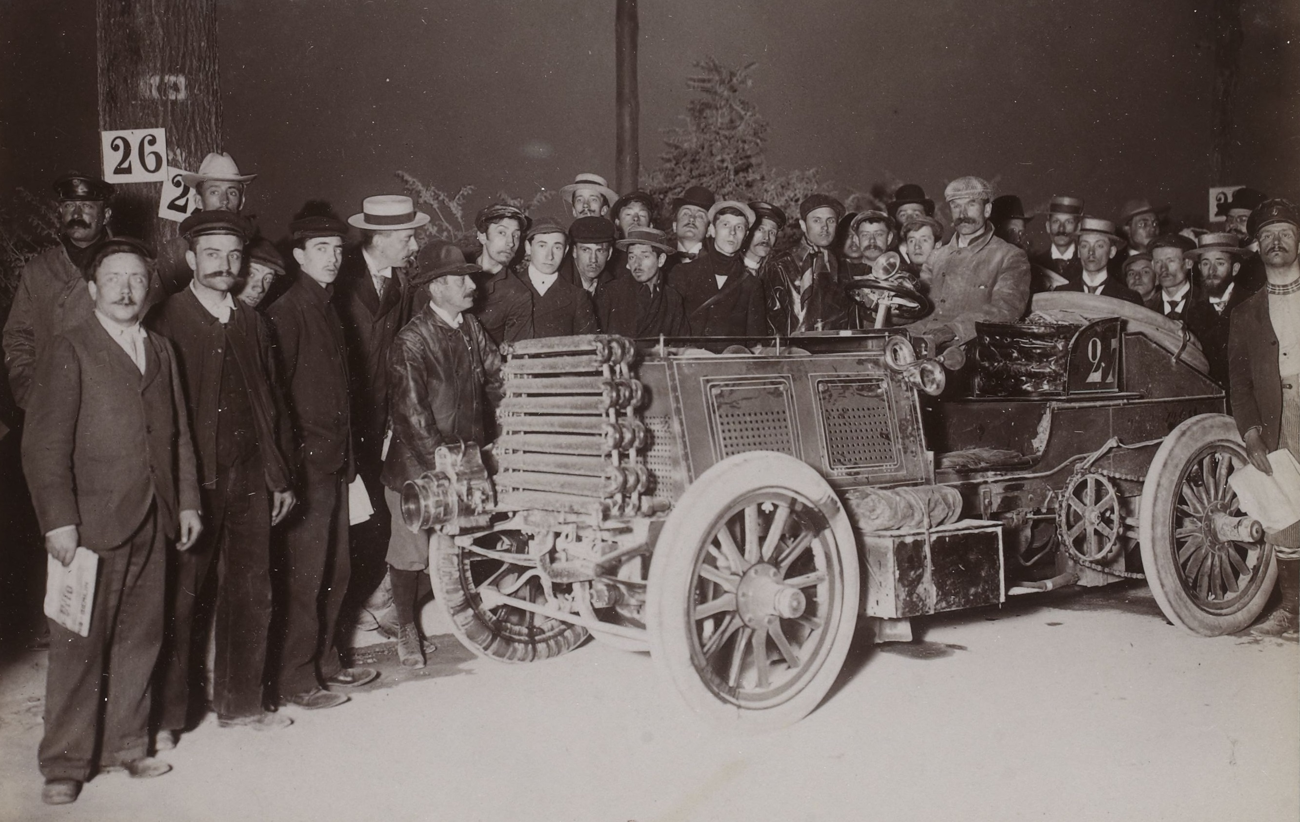 [Collection Jules Beau. Photographie sportive] : T. 14. Année 1901 / Jules Beau : F. 4v. [Paris - Berlin, Grande course annuelle de l' Automobile Club de France, Course de vitesse, 27 -29 juin 1901]